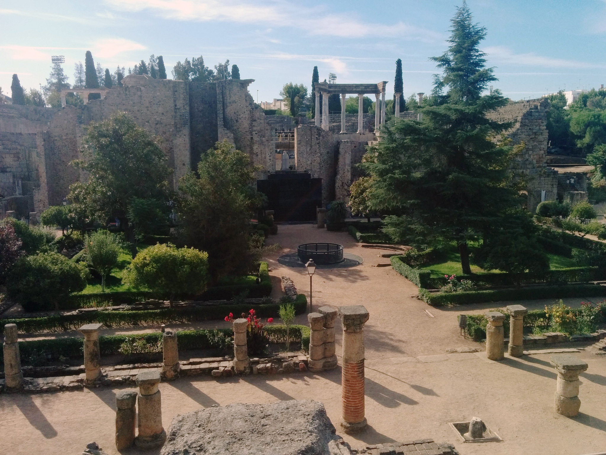 Roman Gardens